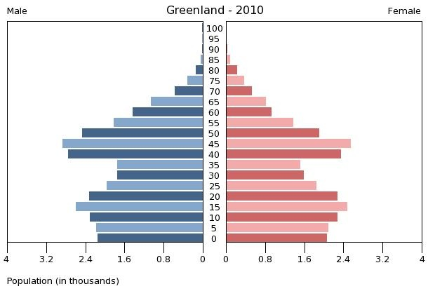 Population Pyramid of Greenland year 2010